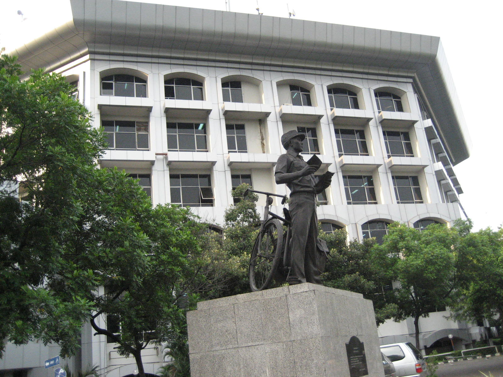 Jakarta Central Post Office, Jalan Gedung Kesenian, Jakarta, Indonesia